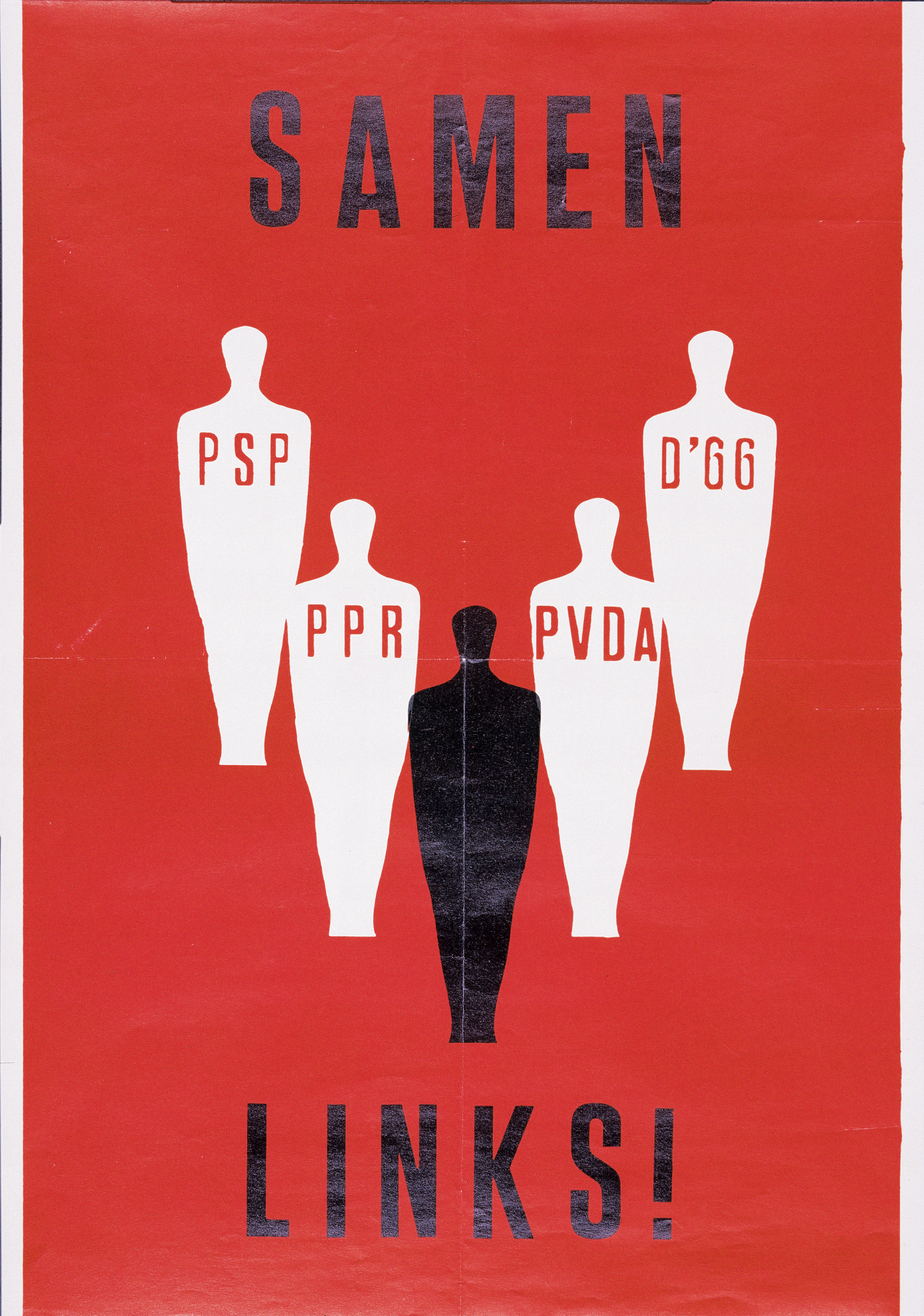 "Together Left!" Poster used in the 1974 municipal elections in a coalition of the PvdA, PPR, PSP and D66.